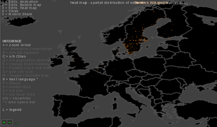 Global distribution of Wikipedia edits on May 10, 2011. Heat map, Swedish only, Europe, black background, shortcuts help.